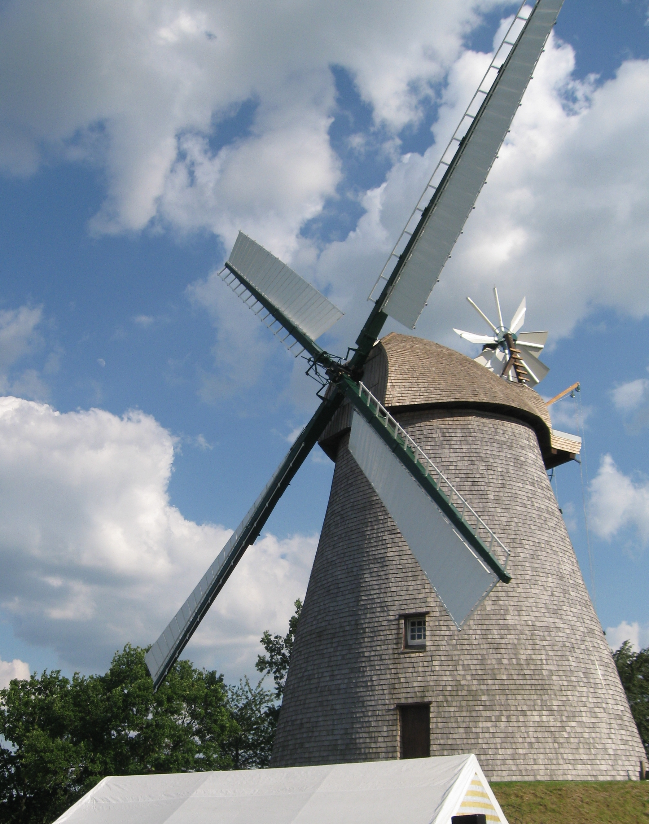 Exter Wind mill at the German External Day of Mills 2009